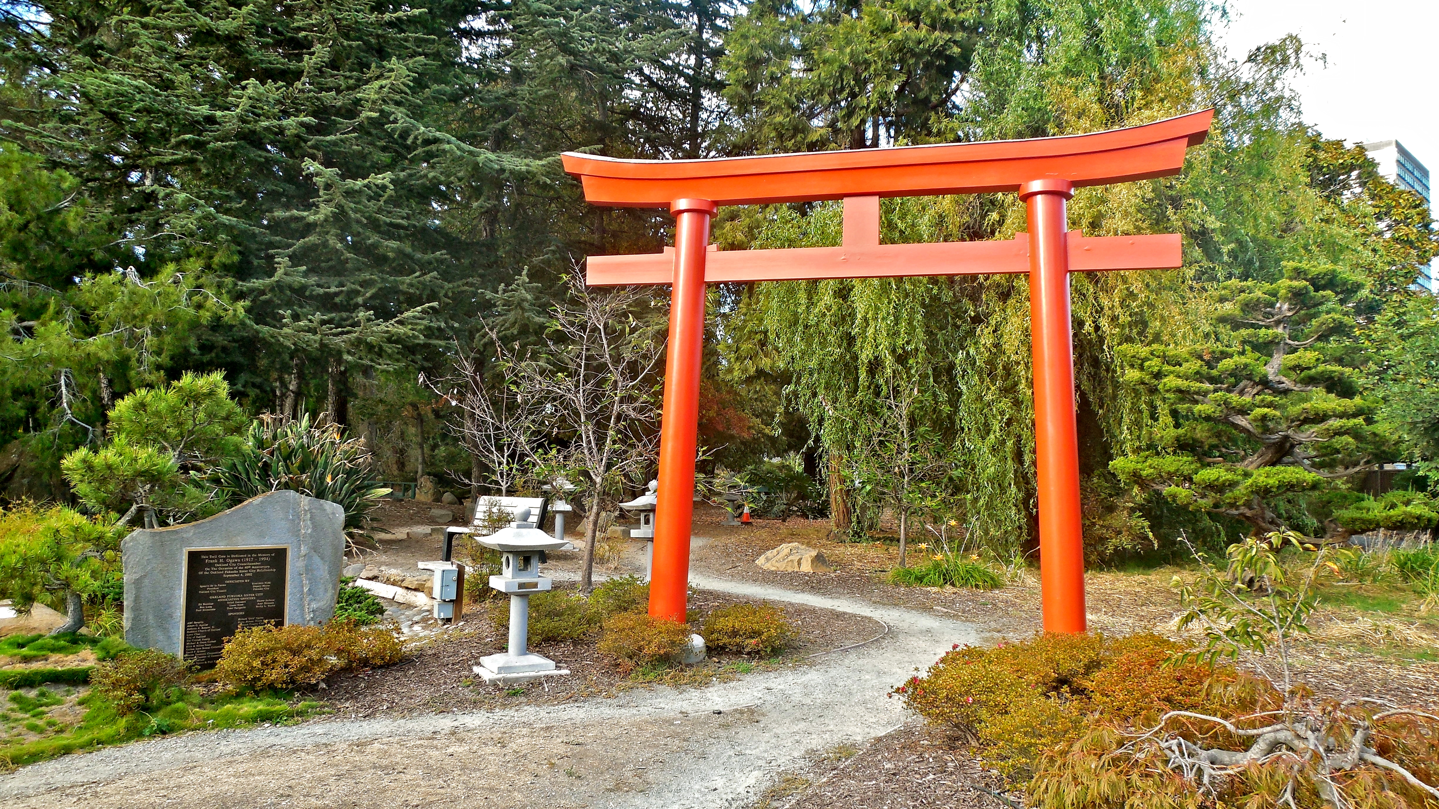 Frank H. Ogawa Memorial Torii at the Gardens of Lake Merritt, Oakland, CA, 2015